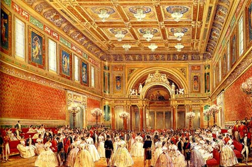 The New Ballroom at Buckingham Palace by Louis Haghe.